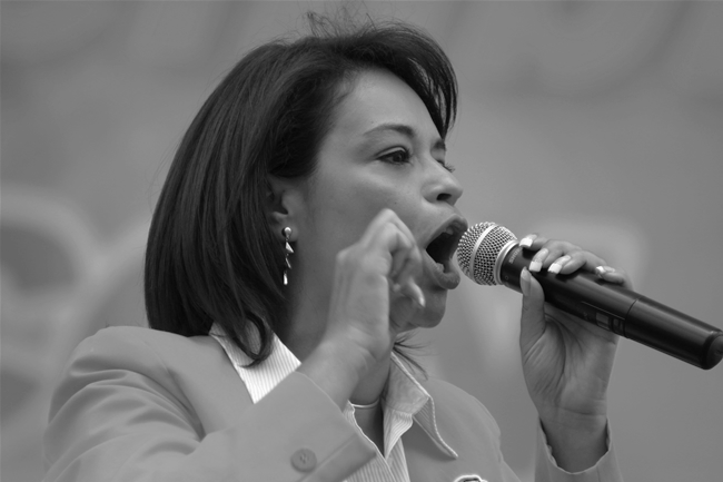 Roxana Baldetti, Vice President of Guatemala (2012-2015)